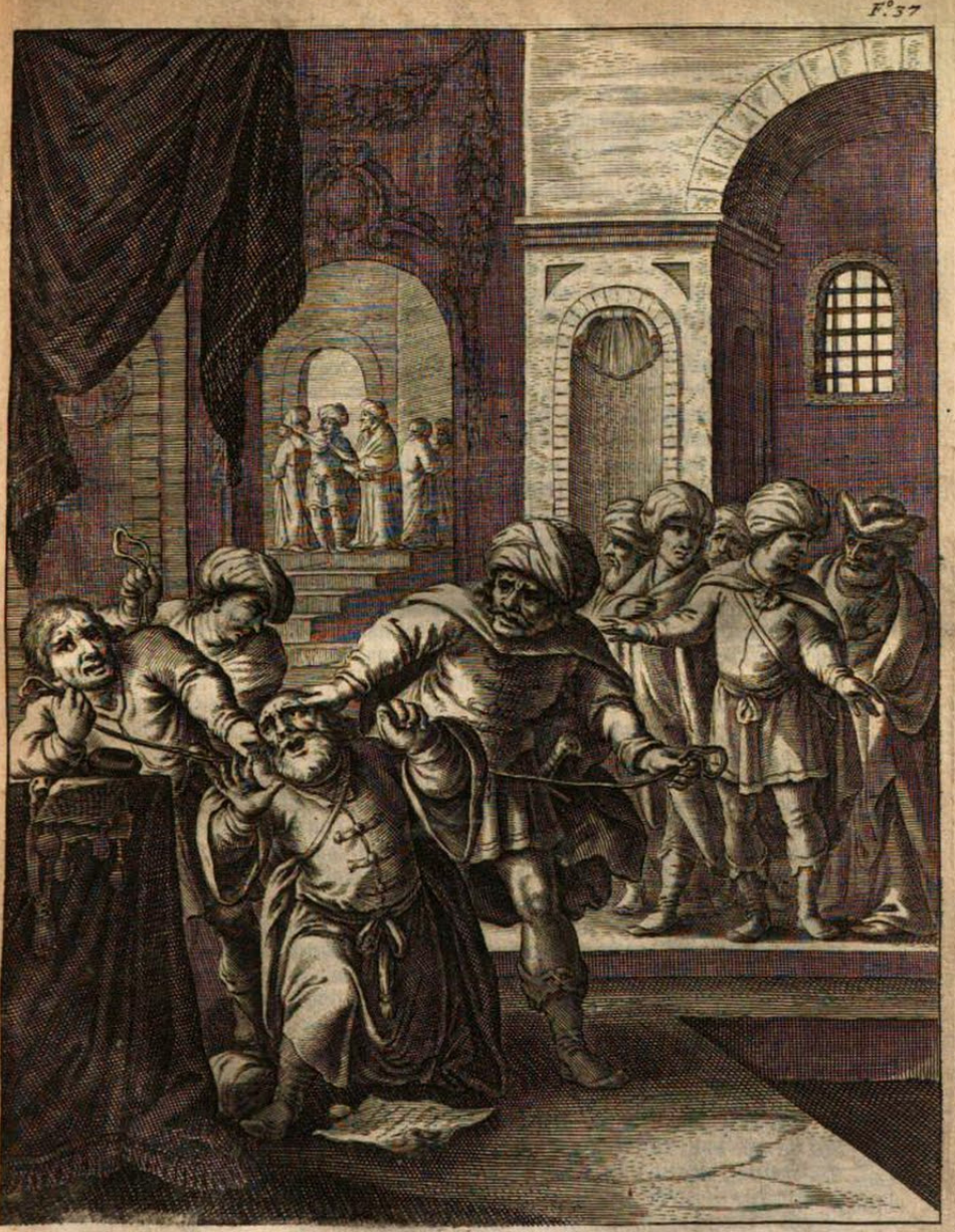 Page 37 From De volkomen beschryvinge der voortreffelijcke reyzen van de deurluchtige reysiger Pietro della Valle, edelman van Romen, in veel voorname gewesten des Werelts gedaan, vol.1. Execution of Nasuh Pasha.